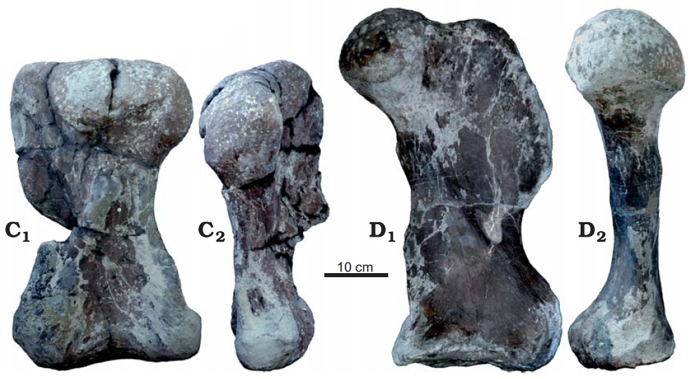 C, D. Ischigualastia−like dicynodont. C. Left humerus ZPAL V33/96 in posterior (C1) and medial (C2) views. D. Left femur ZPAL V33/75 in anterior (D1) and medial (D2) views.